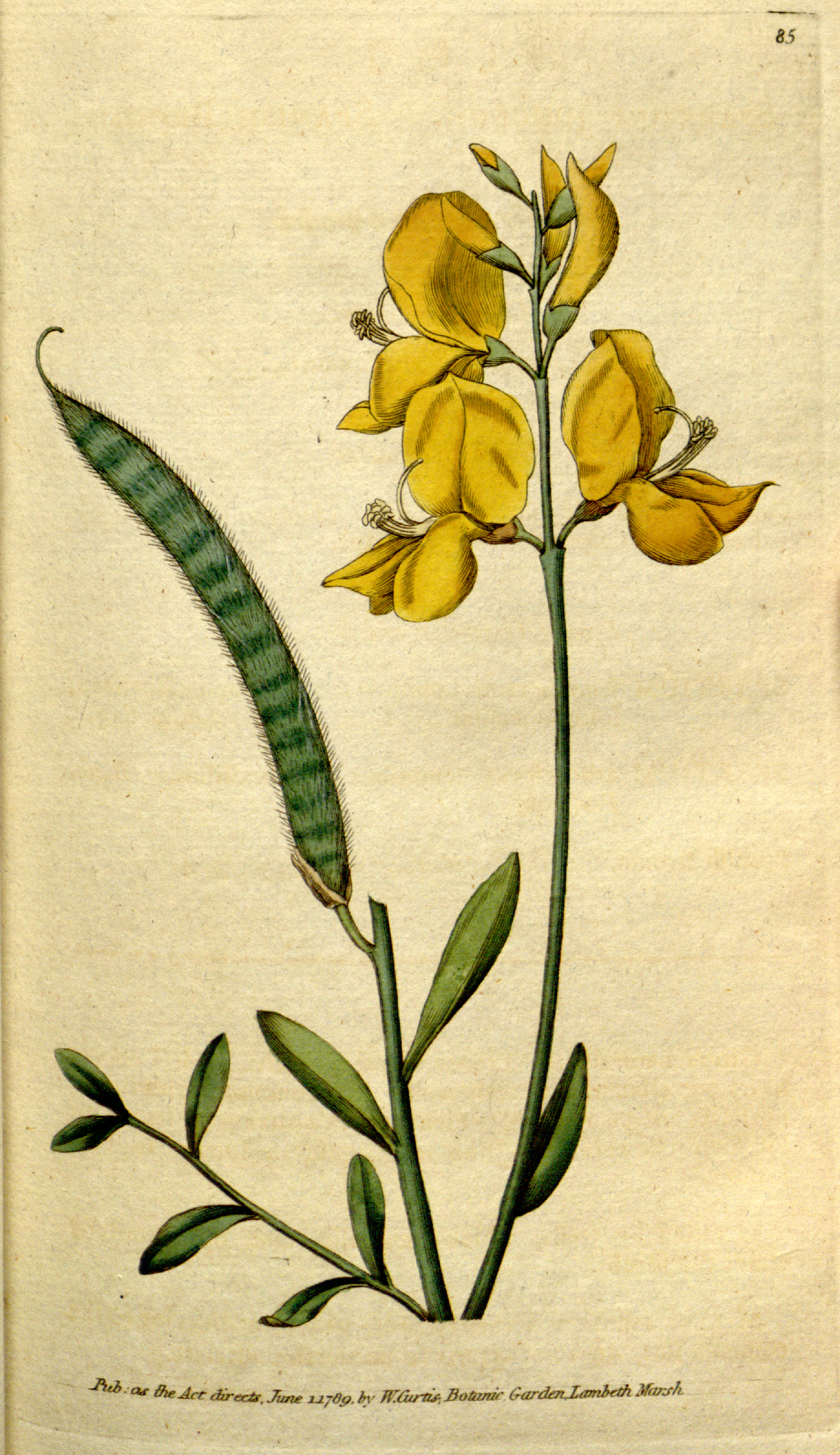 This is a plate from The Botanical Magazine, Volume 3.